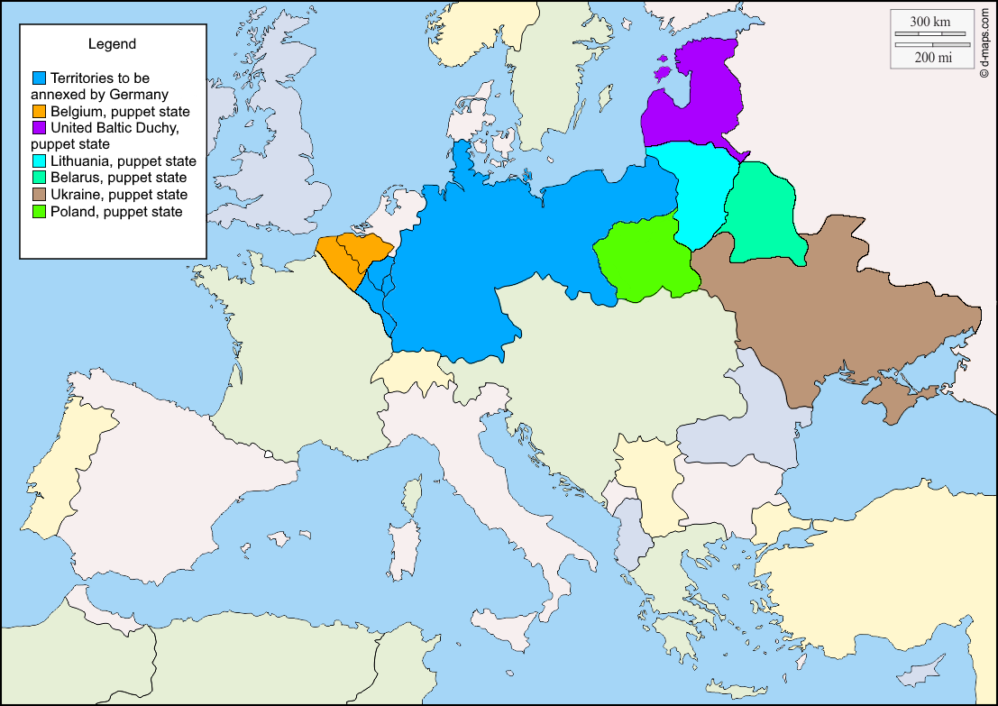 A possible outcome of the German Septemberprogramm in Europe if Germany had gotten a quick victory and it was put into effect.